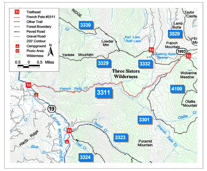 A map of the Three Sisters Wilderness, zoomed in on the French Pete area